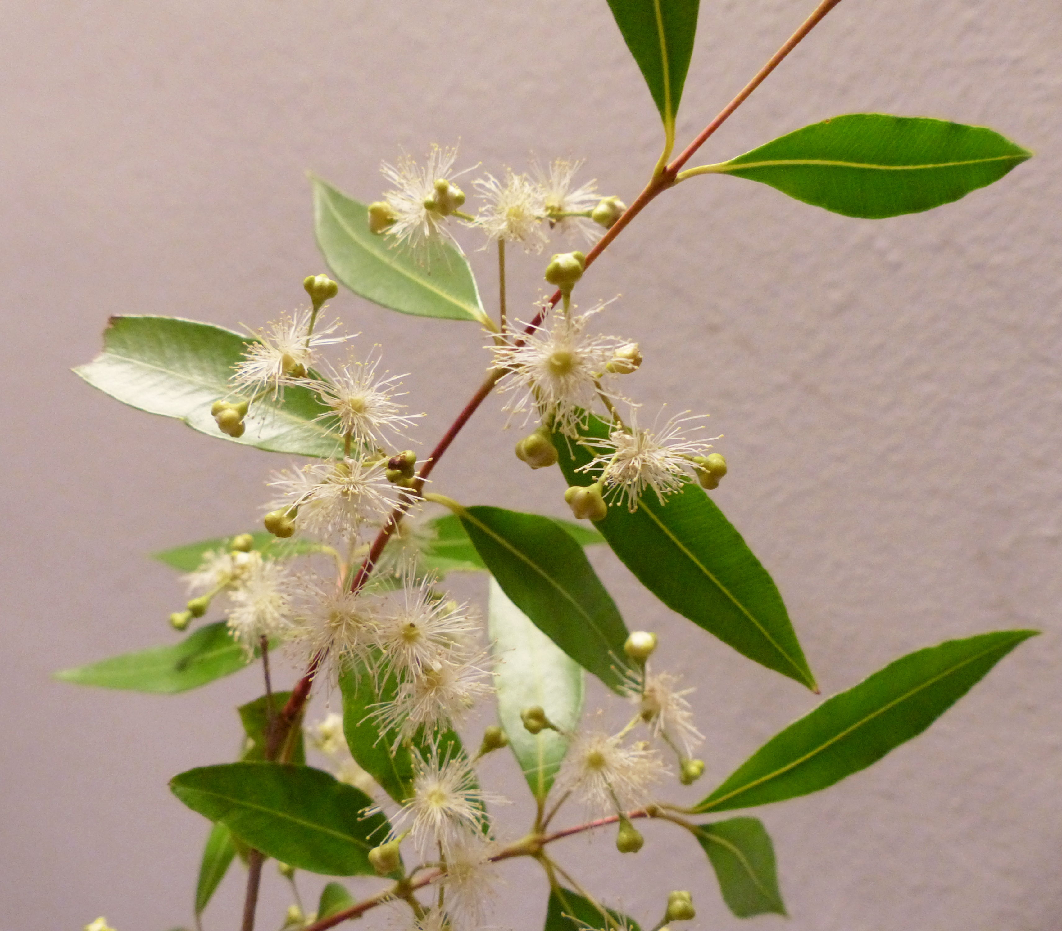 Eugenia cisplatensis is a tree of the family Myrtaceae, native to South America, where it grows in Brazil, Argentina and Paraguay.